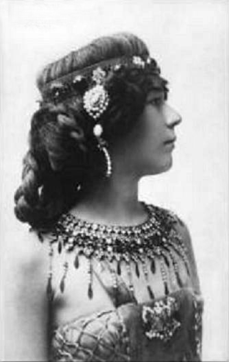 La Sylphe, American Dancer